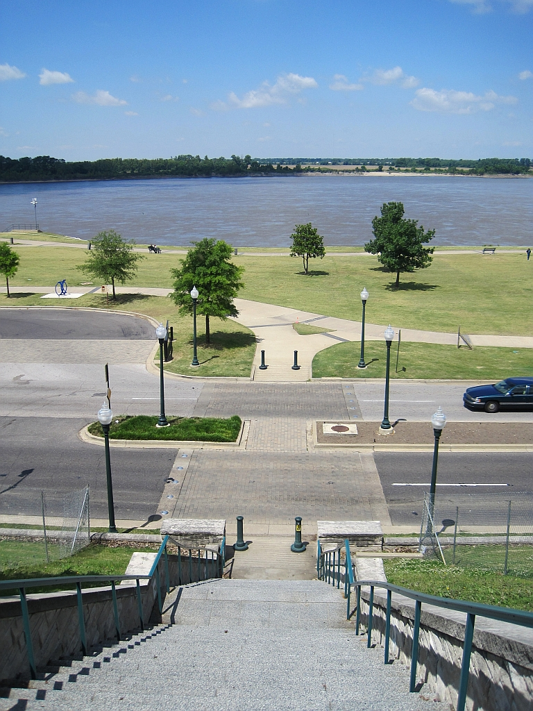 Memphis Riverfront "River Walk" park system along the Mississippi River Overlooking Tom Lee Park